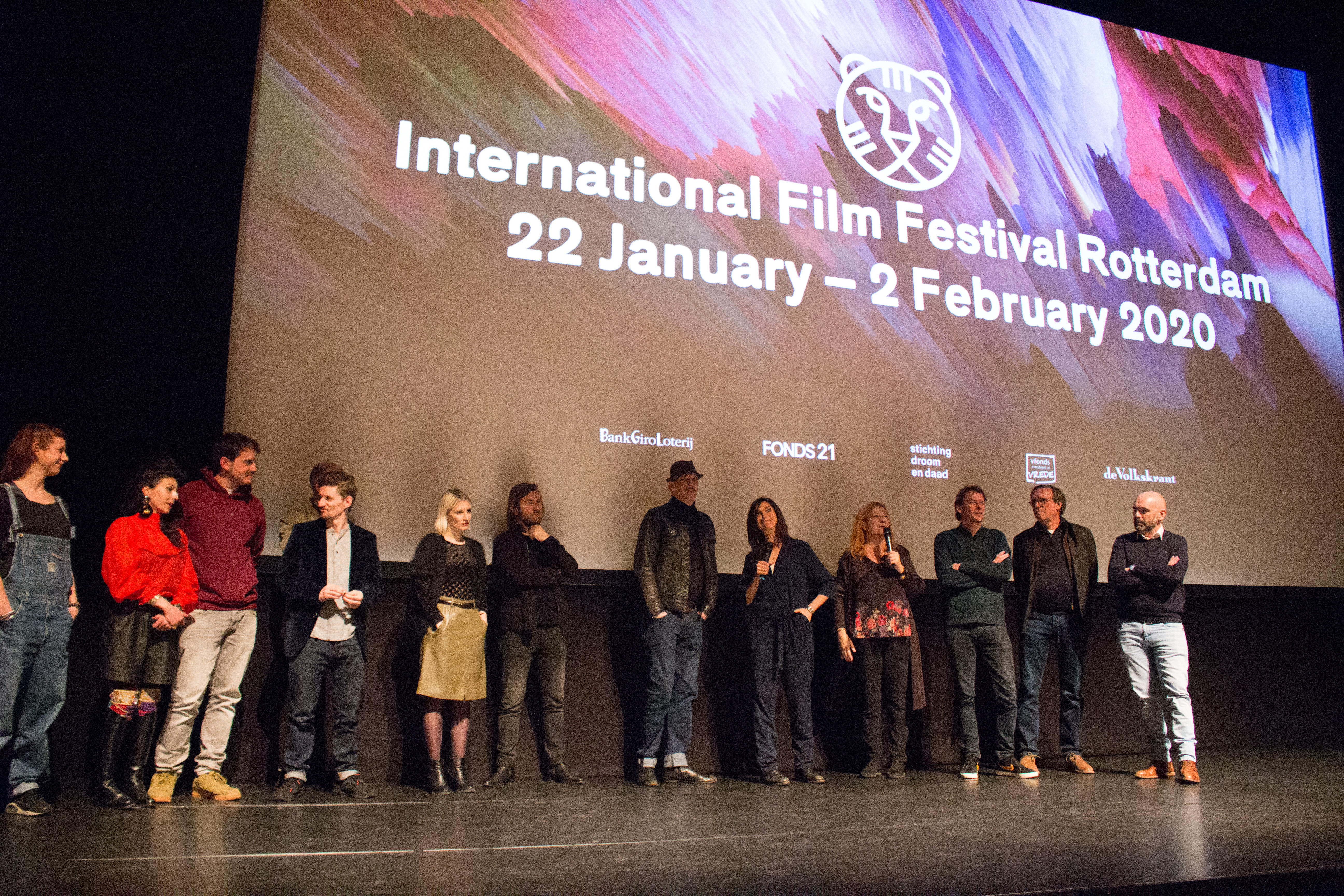 European premiere of The Barefoot Emperor at the IFFR 2020